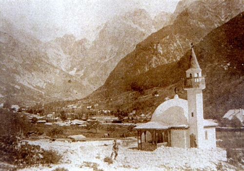 The first (and for now the last) mosque in Slovenia, built probably in autumn 1916, pulled down after World War 1.